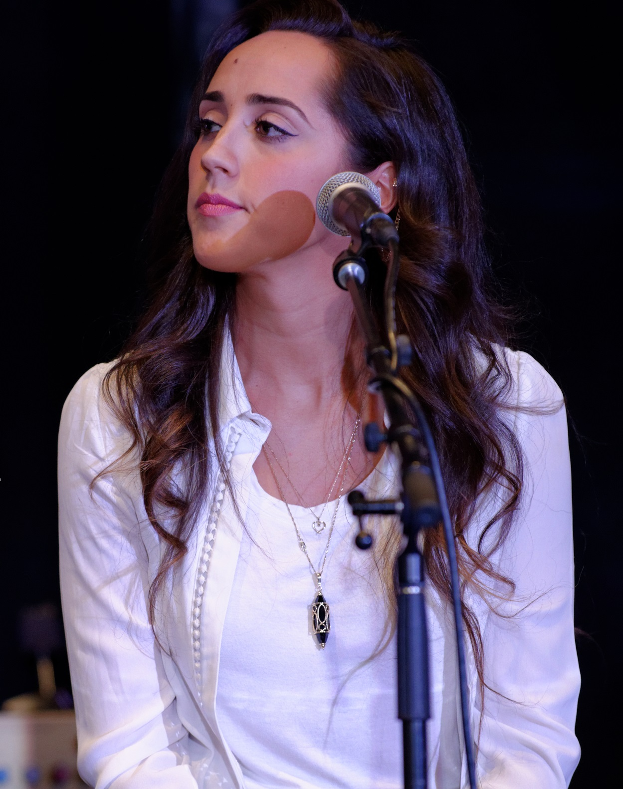 Tess Henley at the Marriott Stage at the Winter NAMM Show 2015